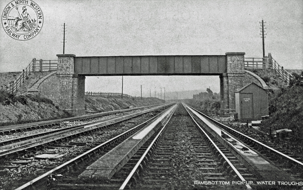 Water troughs on the LNWR railway designed by Ramsbottom